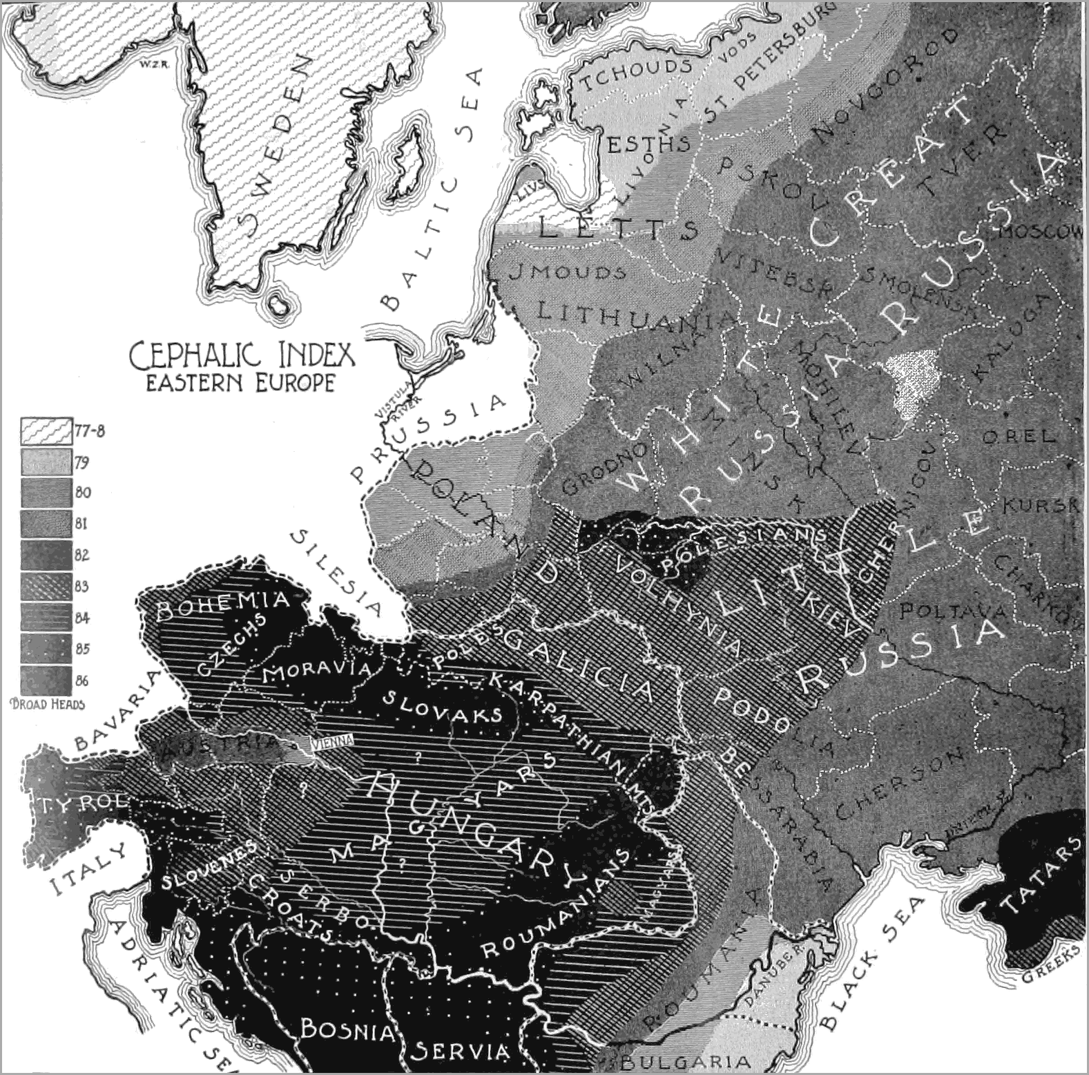 Cephalic index map of Eastern Europe